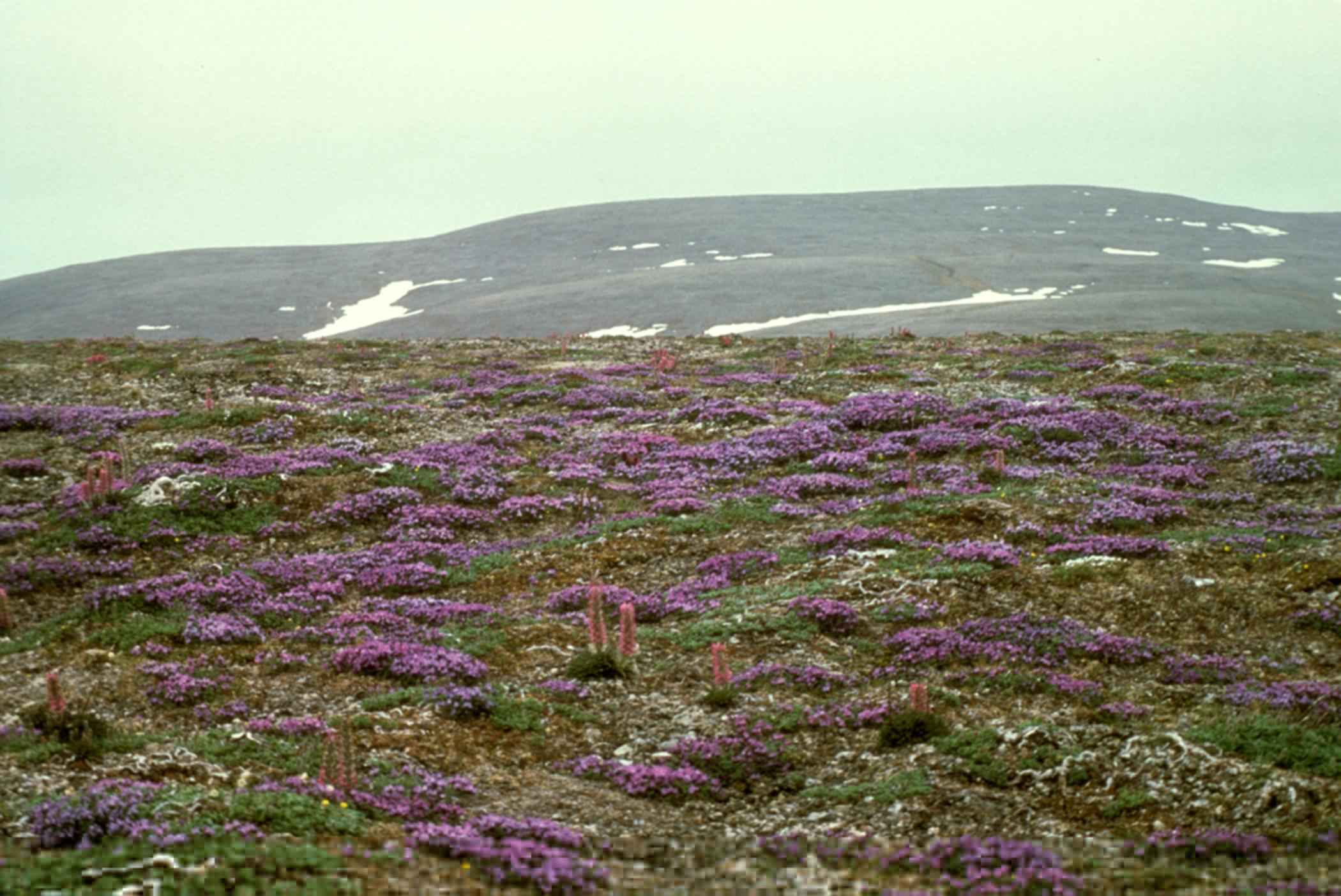 Image title: Oxytropis nigrescens Image from Public domain images website